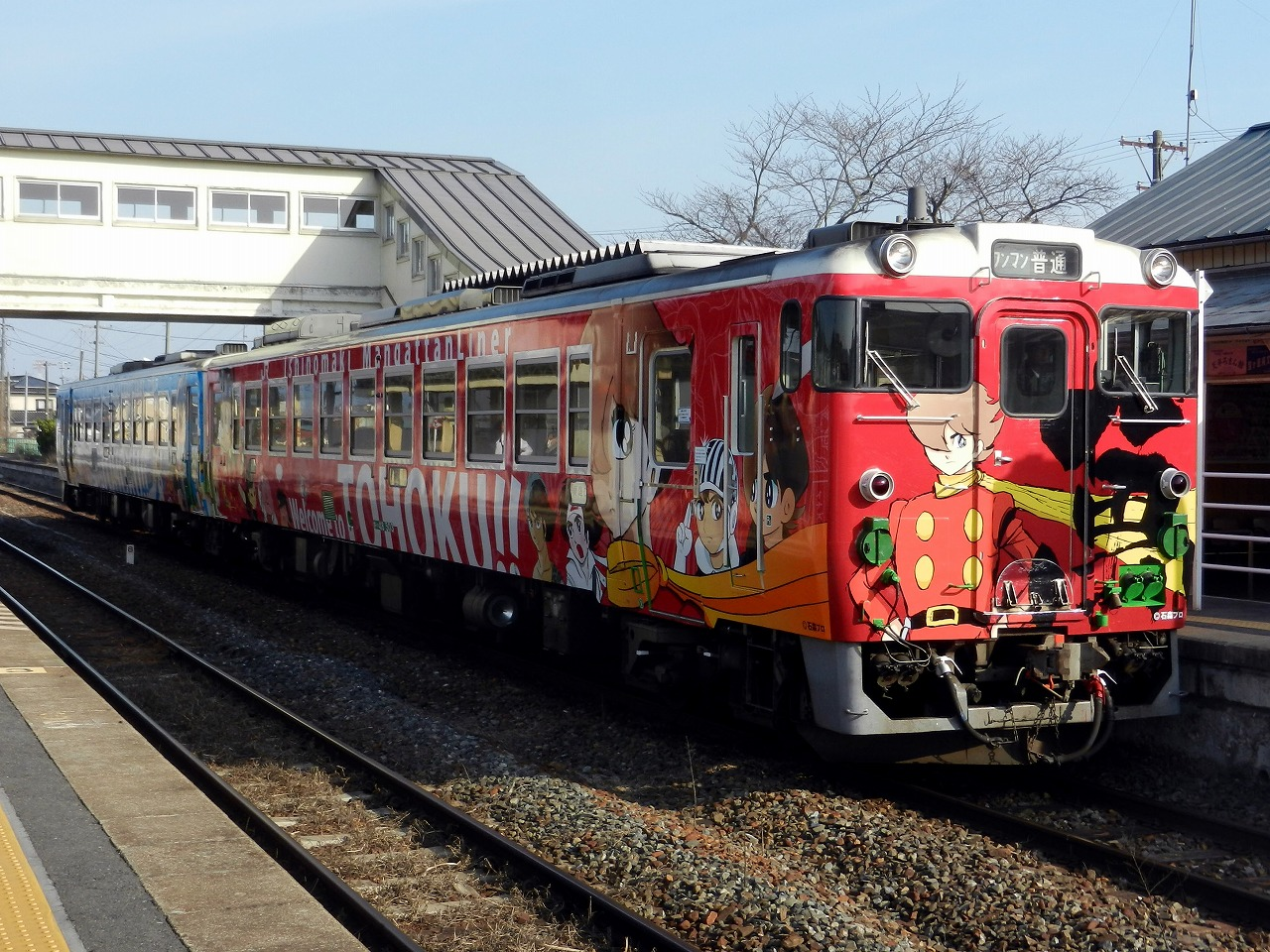 JR East Kiha 48 diesel car Mangattan-liner No.1 (Kiha48 503+ Kiha48 1513)